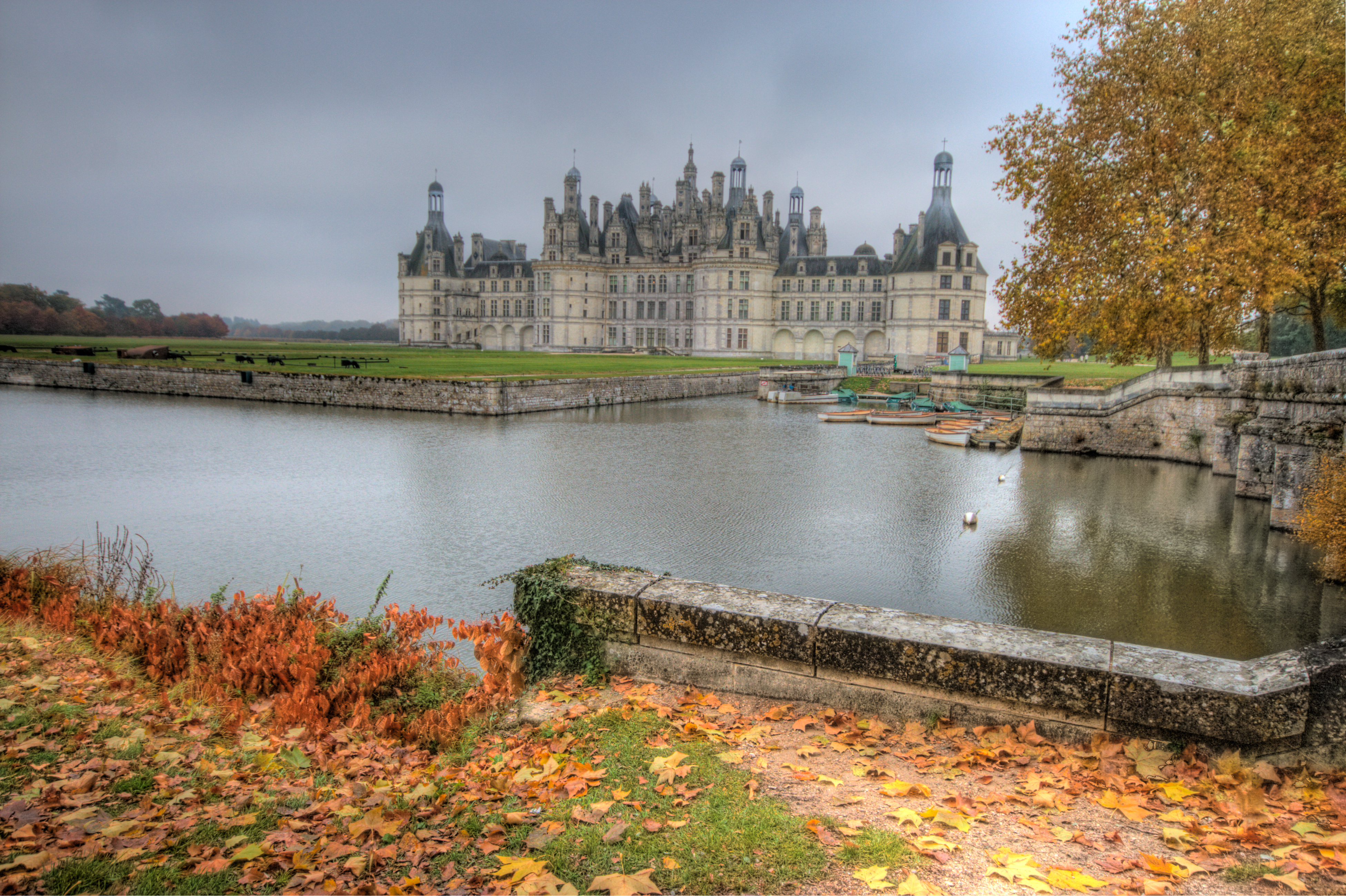 The Chateau de Chambord since west path. Fall colors and light.